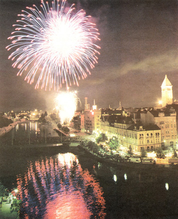 Fireworks over Norrköping, Sweden